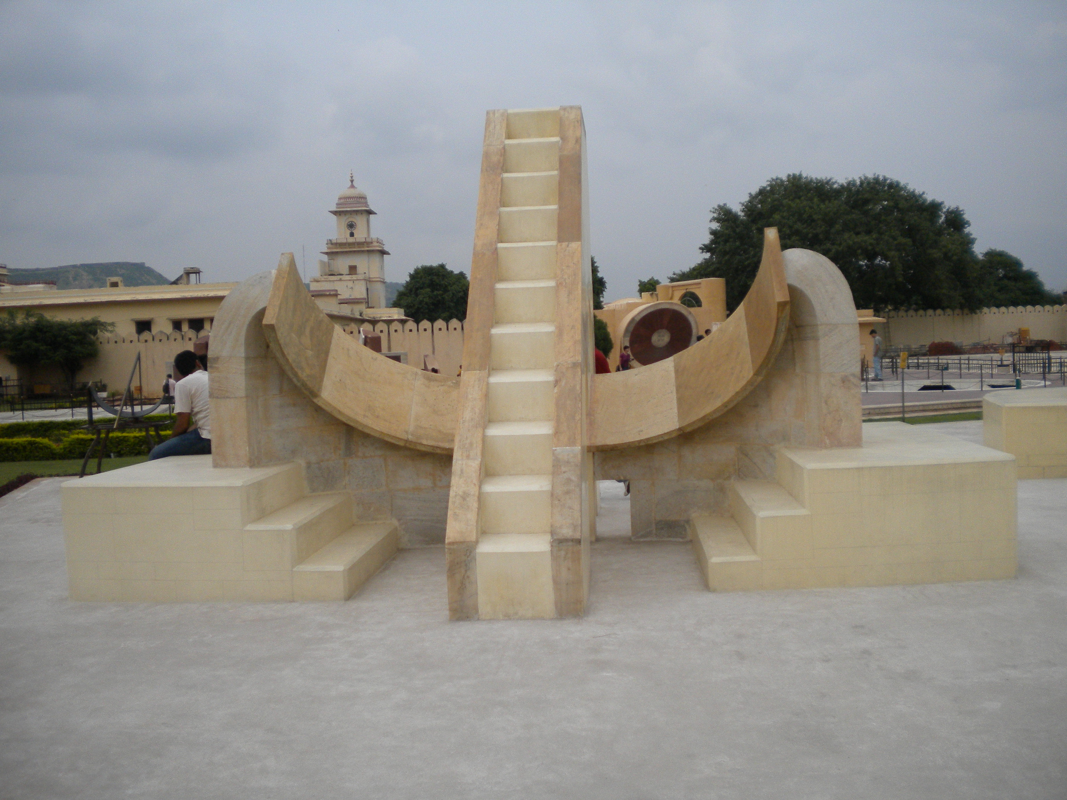 One of the Rasi Valaya Yantras at Jantar Mantar, Jaipur. More information